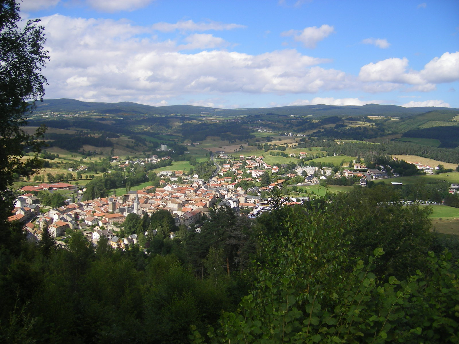 Le Malzieu-Ville as viewed from west, back the Margeride Mountains